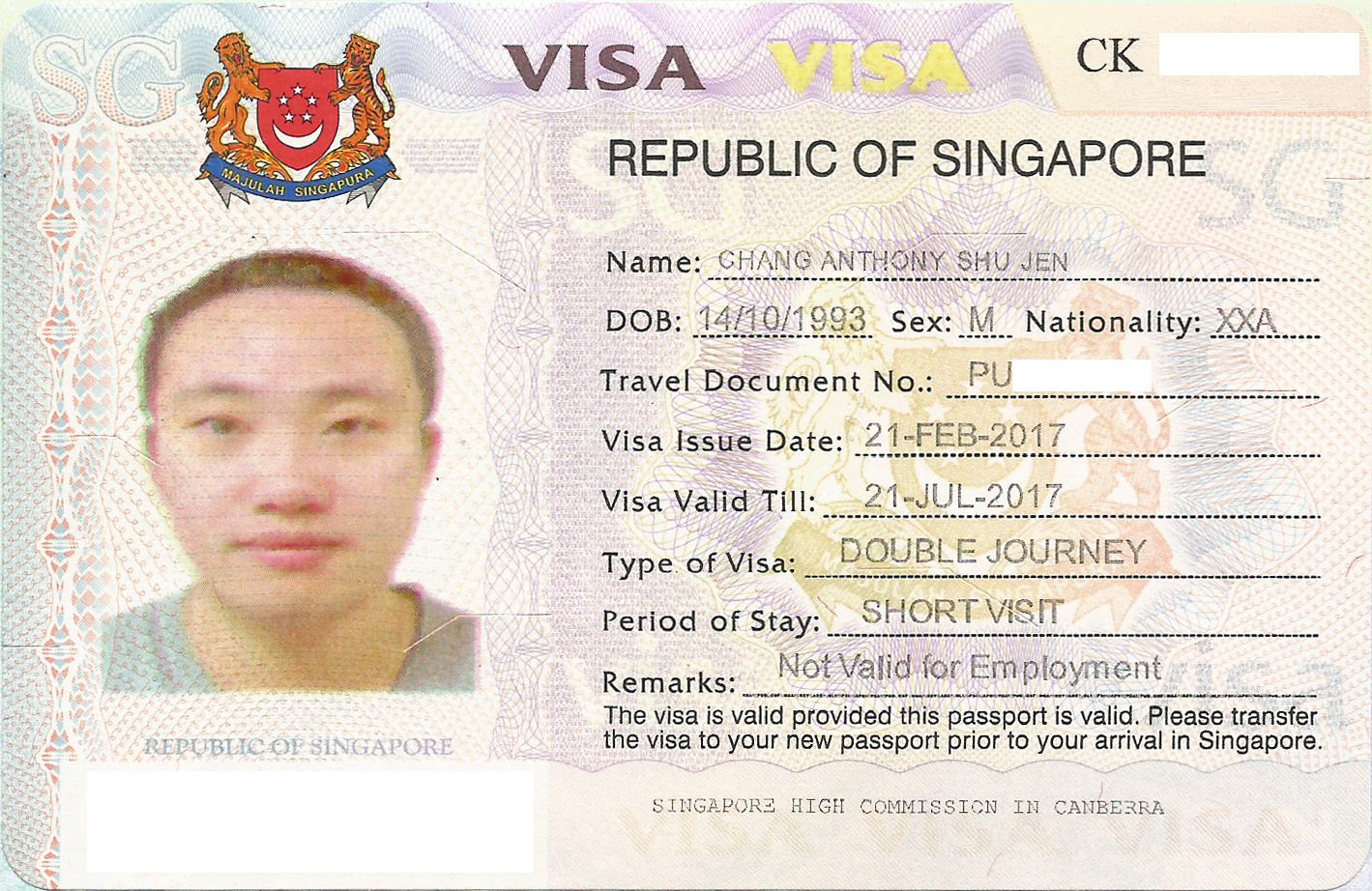 Singapore visa issued to a stateless person by Singapore High Commission in Canberra, Australia.